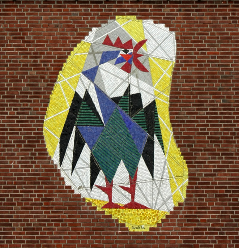 Nameless mosaic by Siep van den Berg in Groningen, the Netherlands